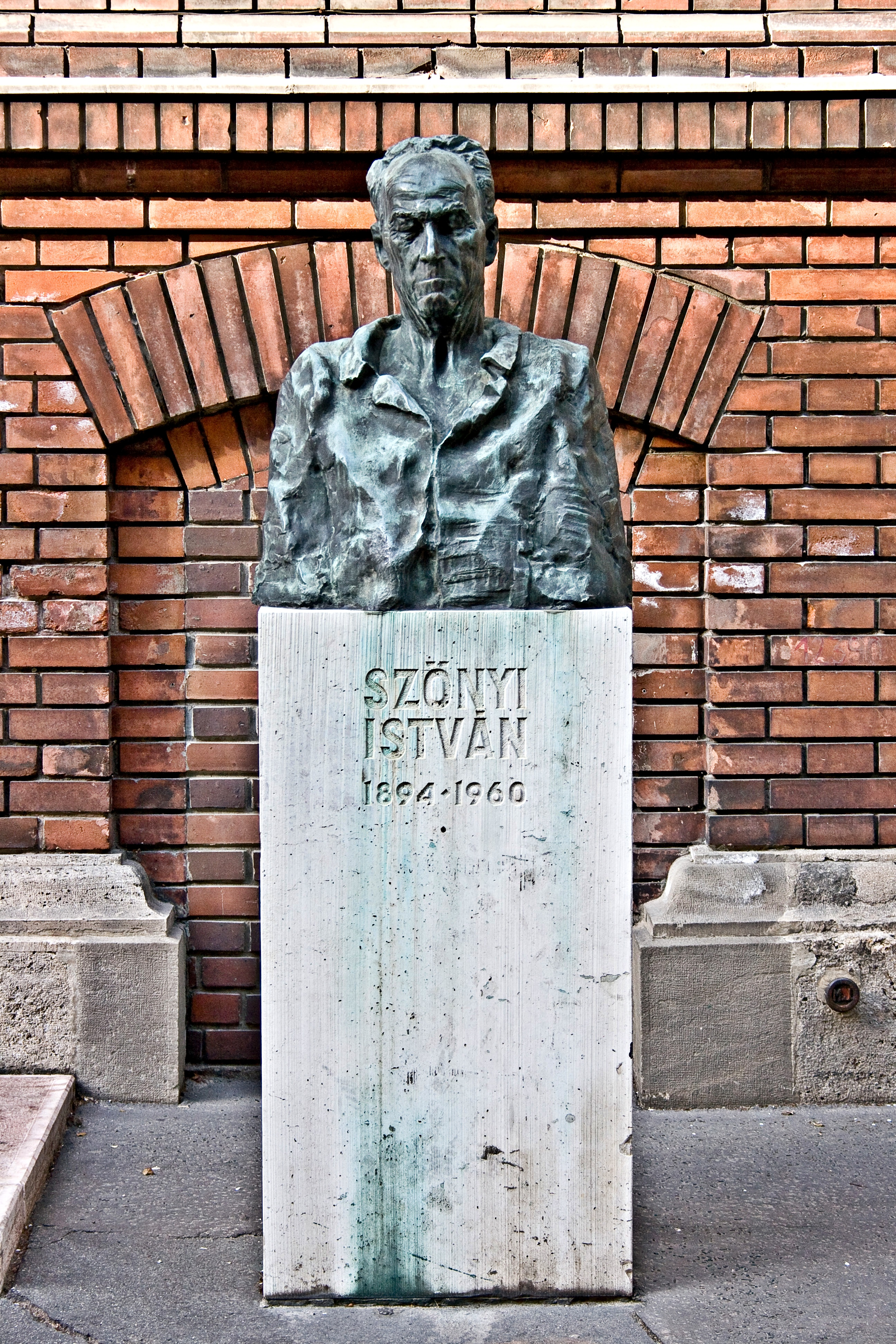 Bust of István Szőnyi, Budapest District V, Markó Street No 18-20